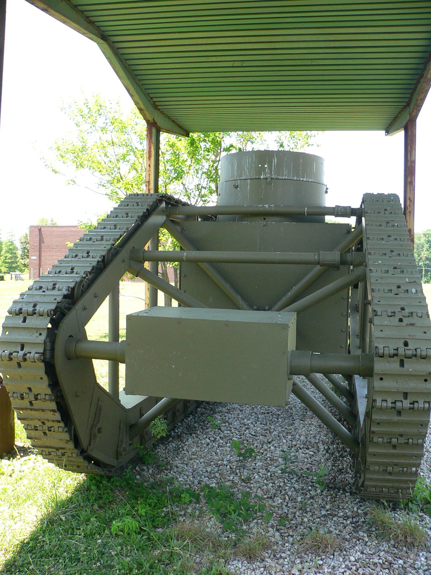 Picture taken by myself, Mark Pellegrini, at the United States Army Ordnance Museum (Aberdeen Proving Ground, MD) on June 12, 2007.